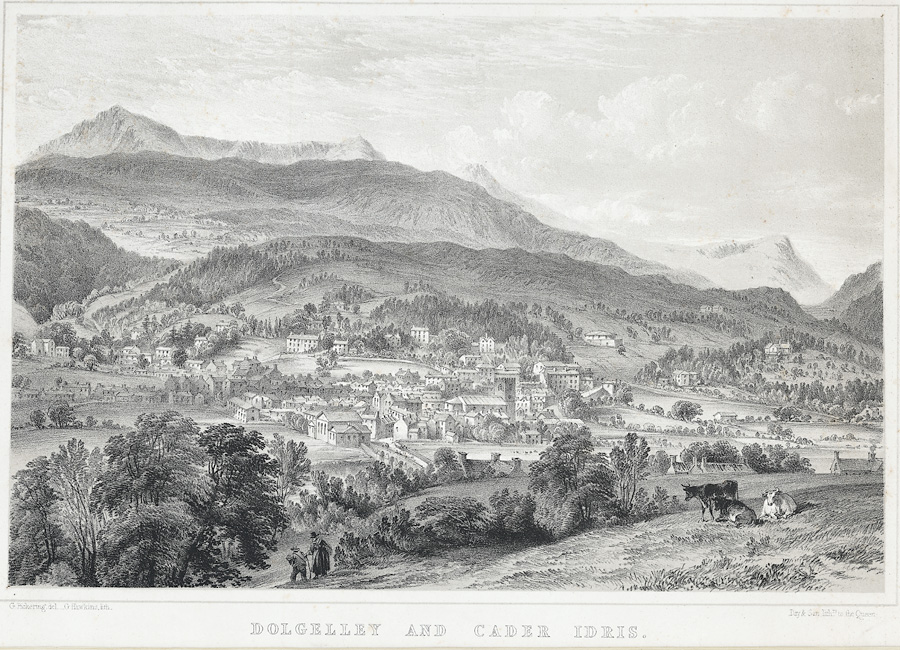 View over-looking town.